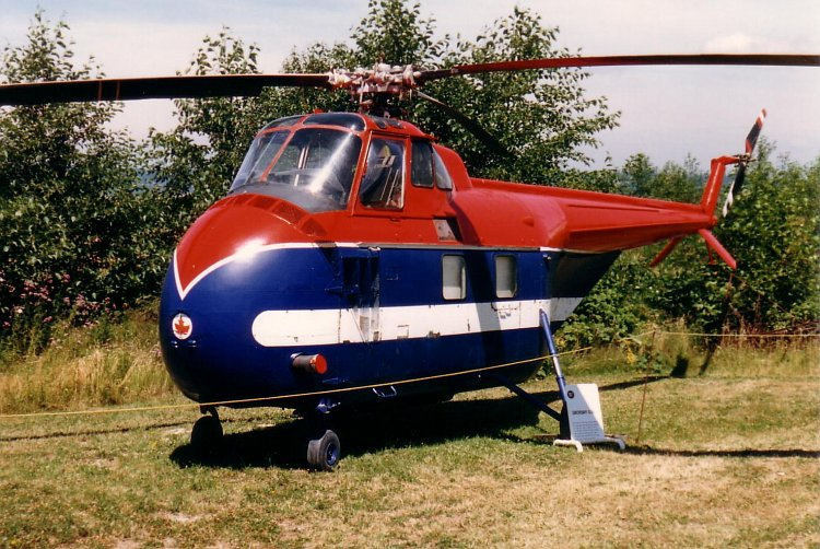 I took this photo of a Sikorsky S-55 in Mid Canada Line markings at the Canadian Museum of Flight on 23 July 1988.